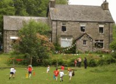 Children playing outside Satterthwaite Scool